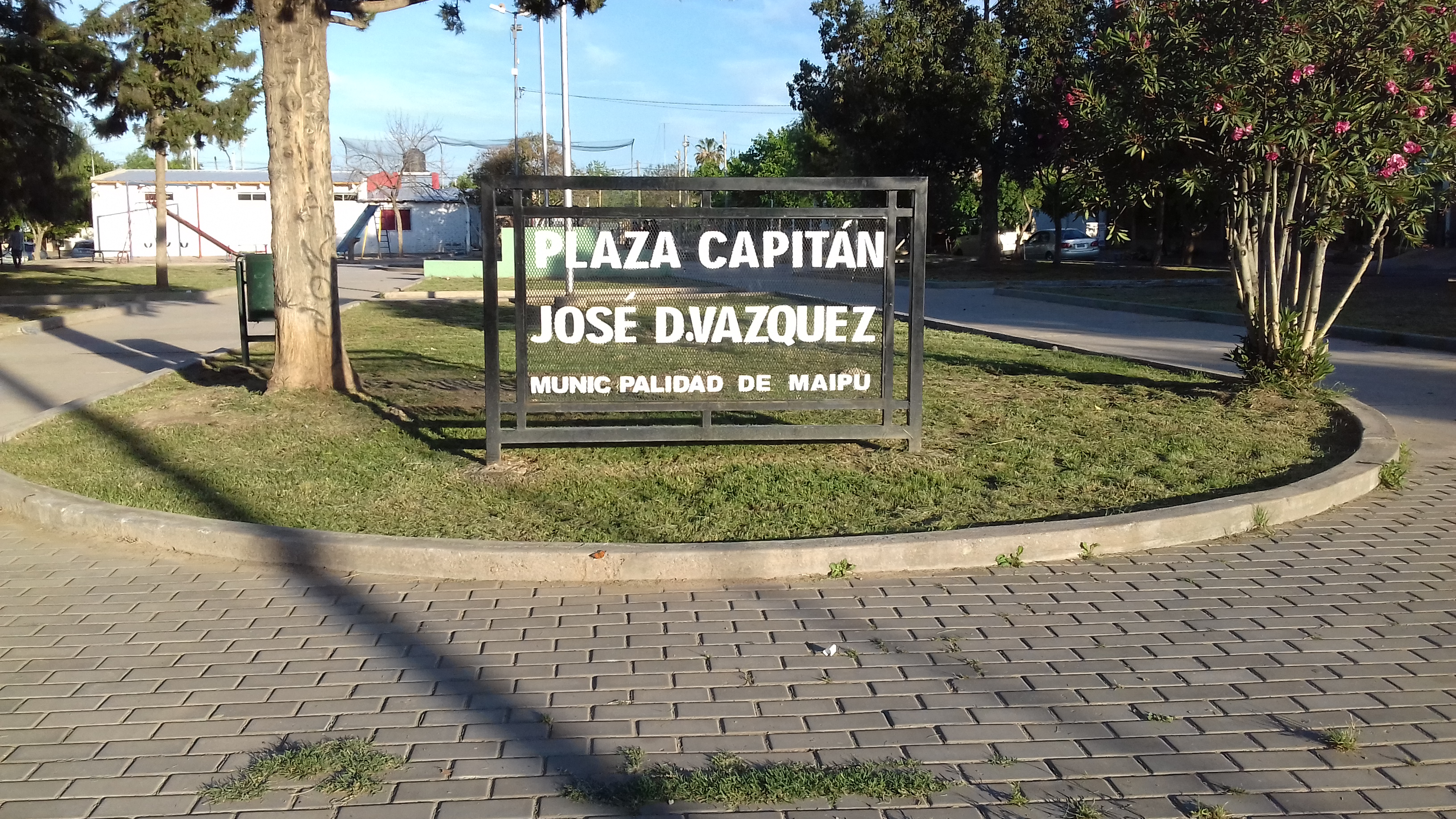 Plaza Capitán José Daniel Vázquez. Mendoza Province. Mendoza.